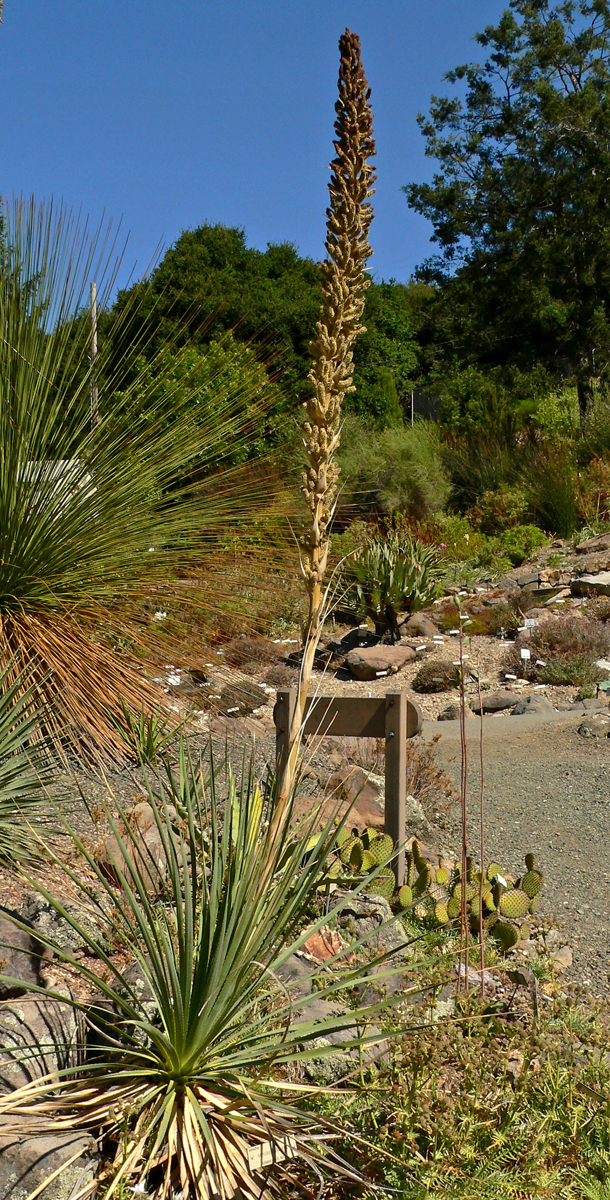 Dasylirion durangense at the University of California Botanical Garden, Berkeley, California